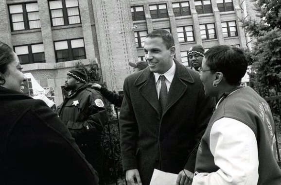 Ron Huberman with Harper High School Staff, 2009